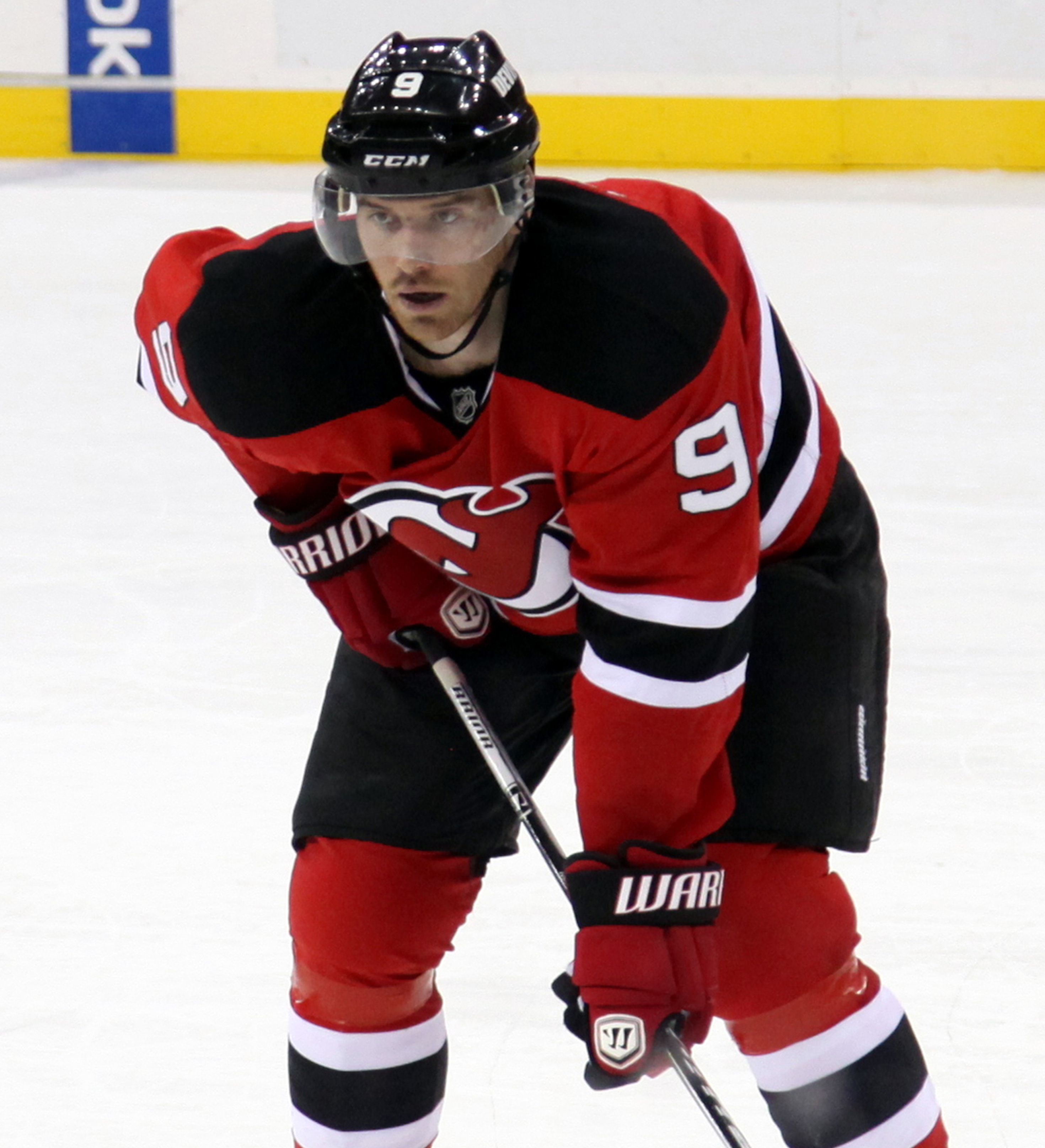 Martin Havlat in January 2015.